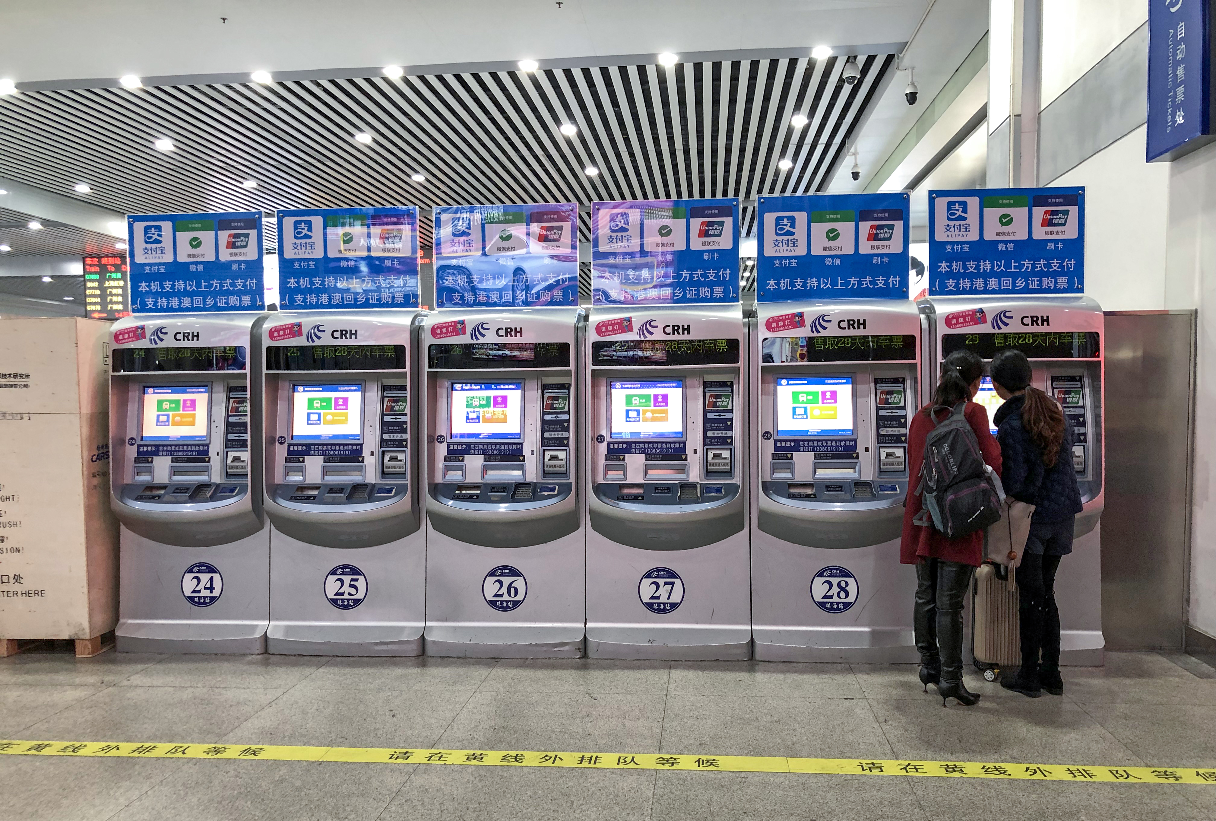 Some of them doesn't support Home Return Permit.